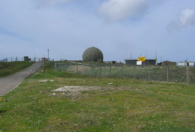 Cleitreabhal a'Deas. Air defence radar for the north west of Britain. Now that the Russians have resumed wasting kerosene by flying long range sorties over the North Atlantic, this place is again really earning its keep. This is not the rocket range tracking station for the Benbecula/South Uist rocket range. This is on site but not shown here. Thanks to Ian Bramwell for the information.